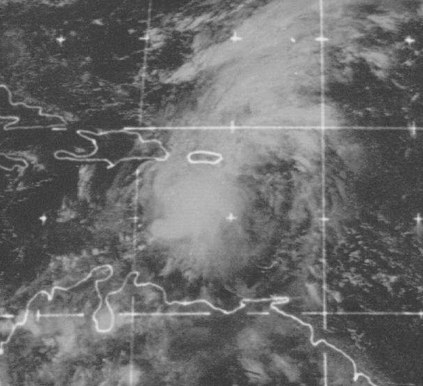 Satellite image of a tropical depression affecting Puerto Rico in October 1970